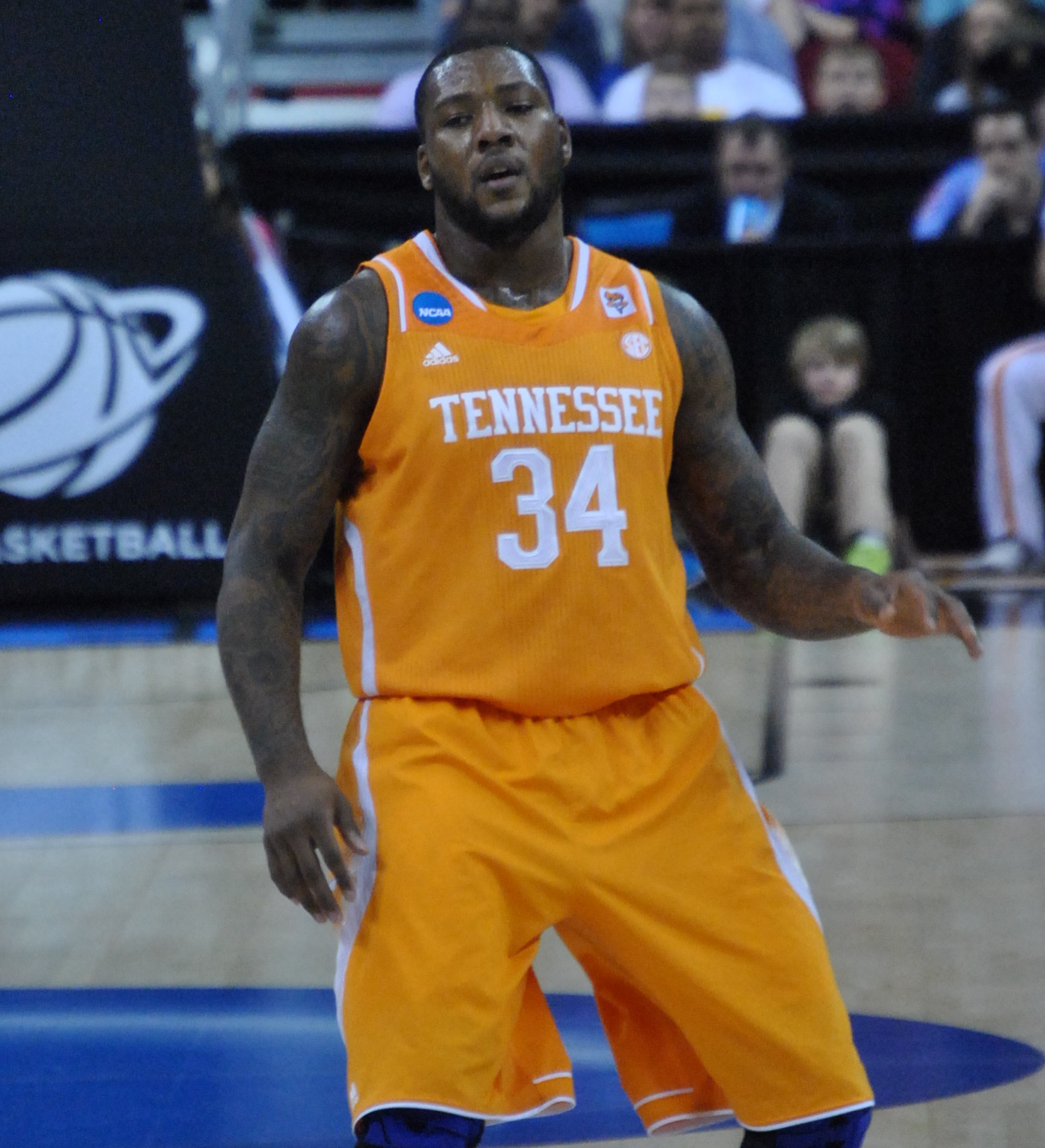 Jeronne Maymon on the floor for the Vols in Raleigh